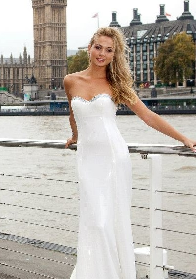 This is a photo of Alize Lily Mounter.